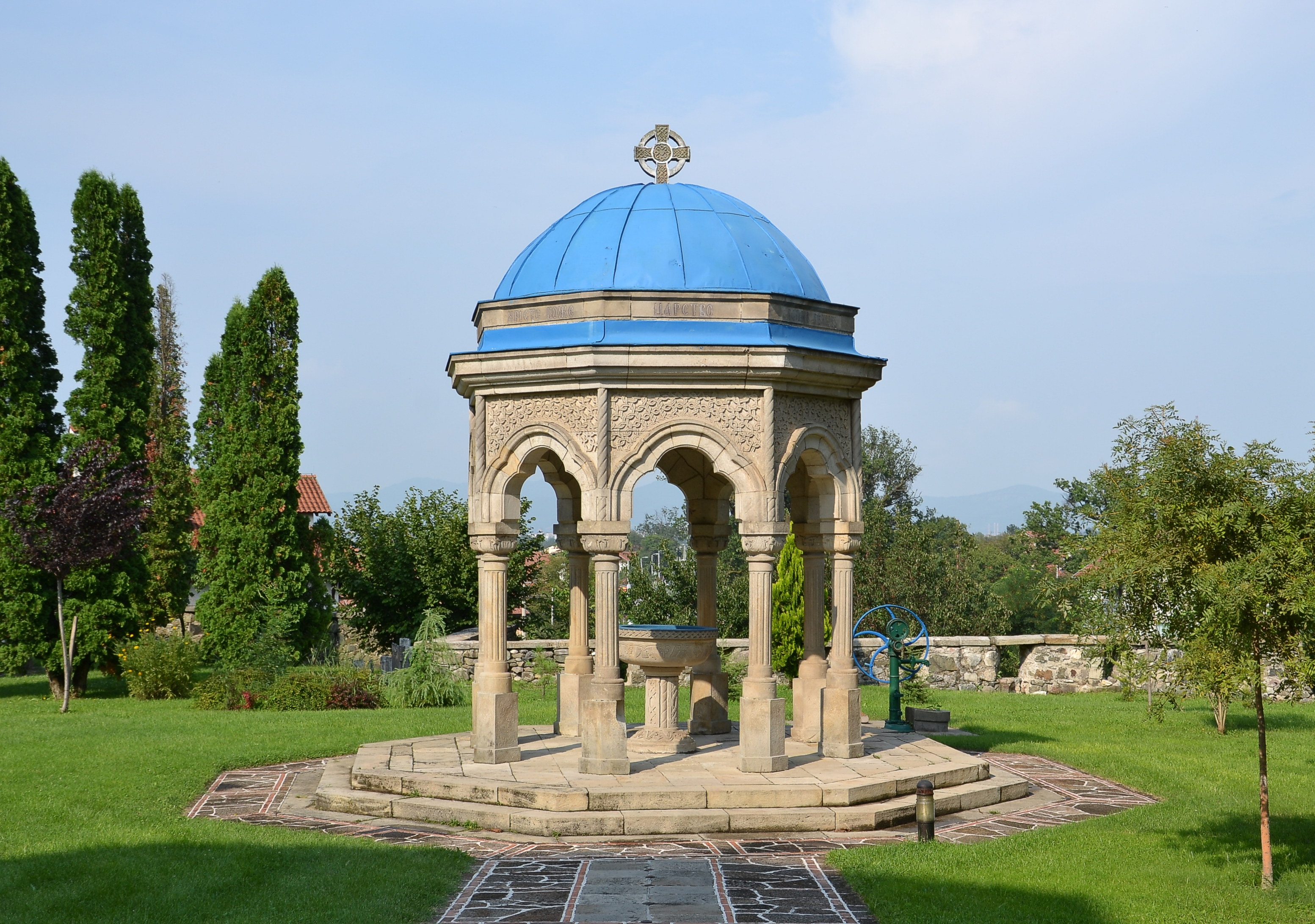 Žiča monastery, Serbia - baptismal font